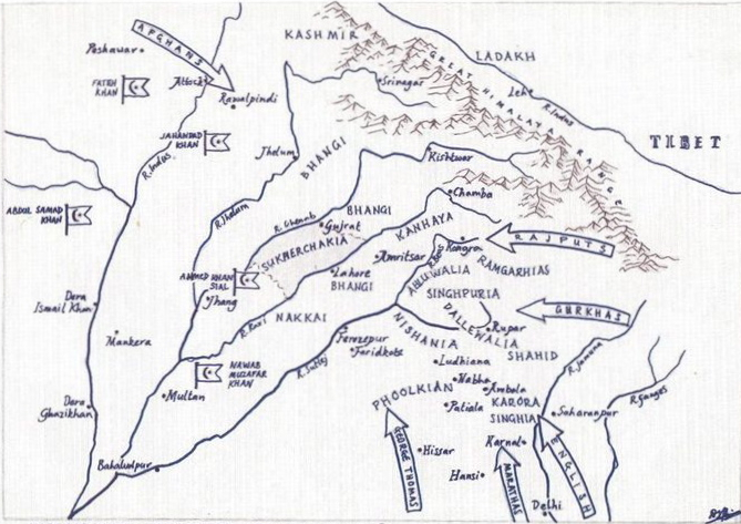 A map of Northern India depicting the general areas of the Sikh misls